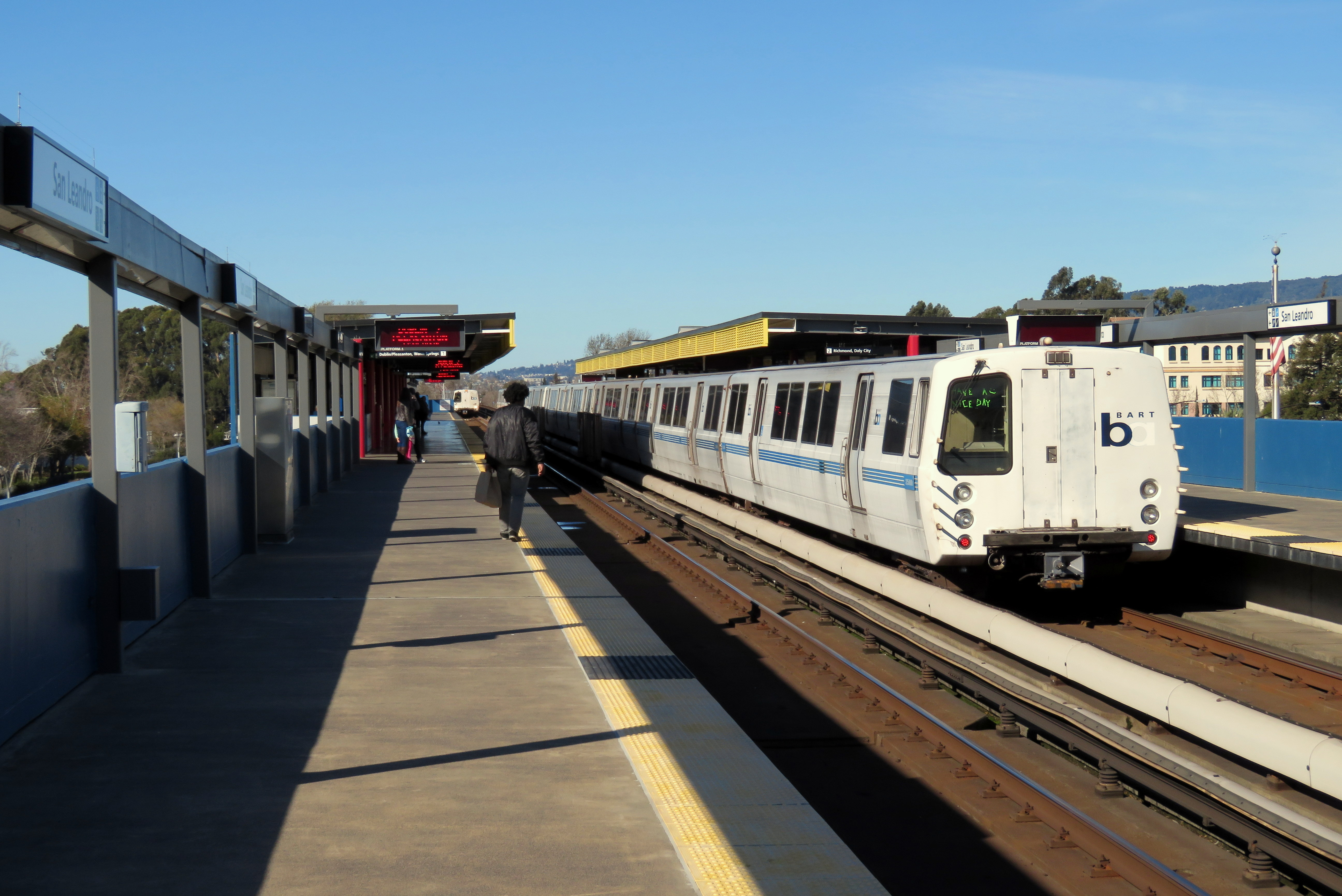 Northbound train at San Leandro station in January 2018